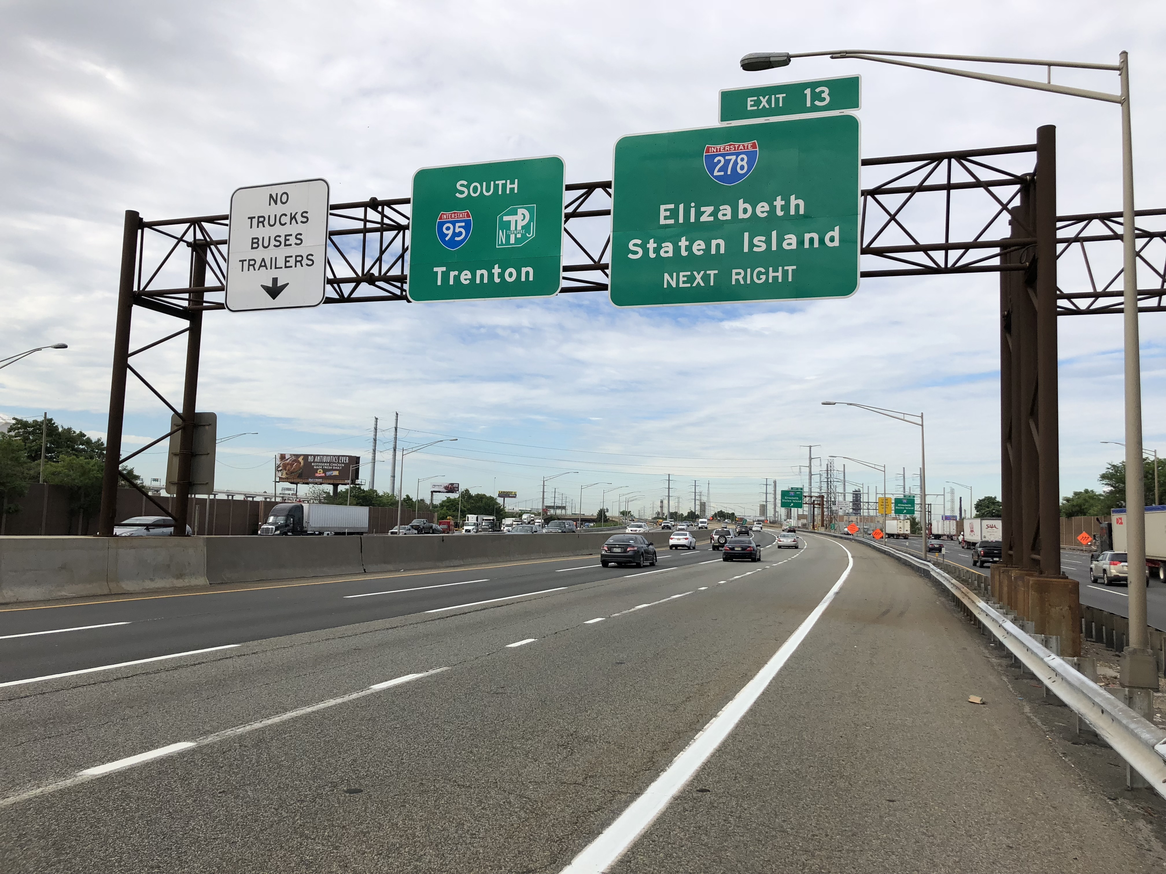 View south along Interstate 95 (New Jersey Turnpike) just north of Exit 13 (Interstate 278, Elizabeth, Staten Island) in Elizabeth, Union County, New Jersey